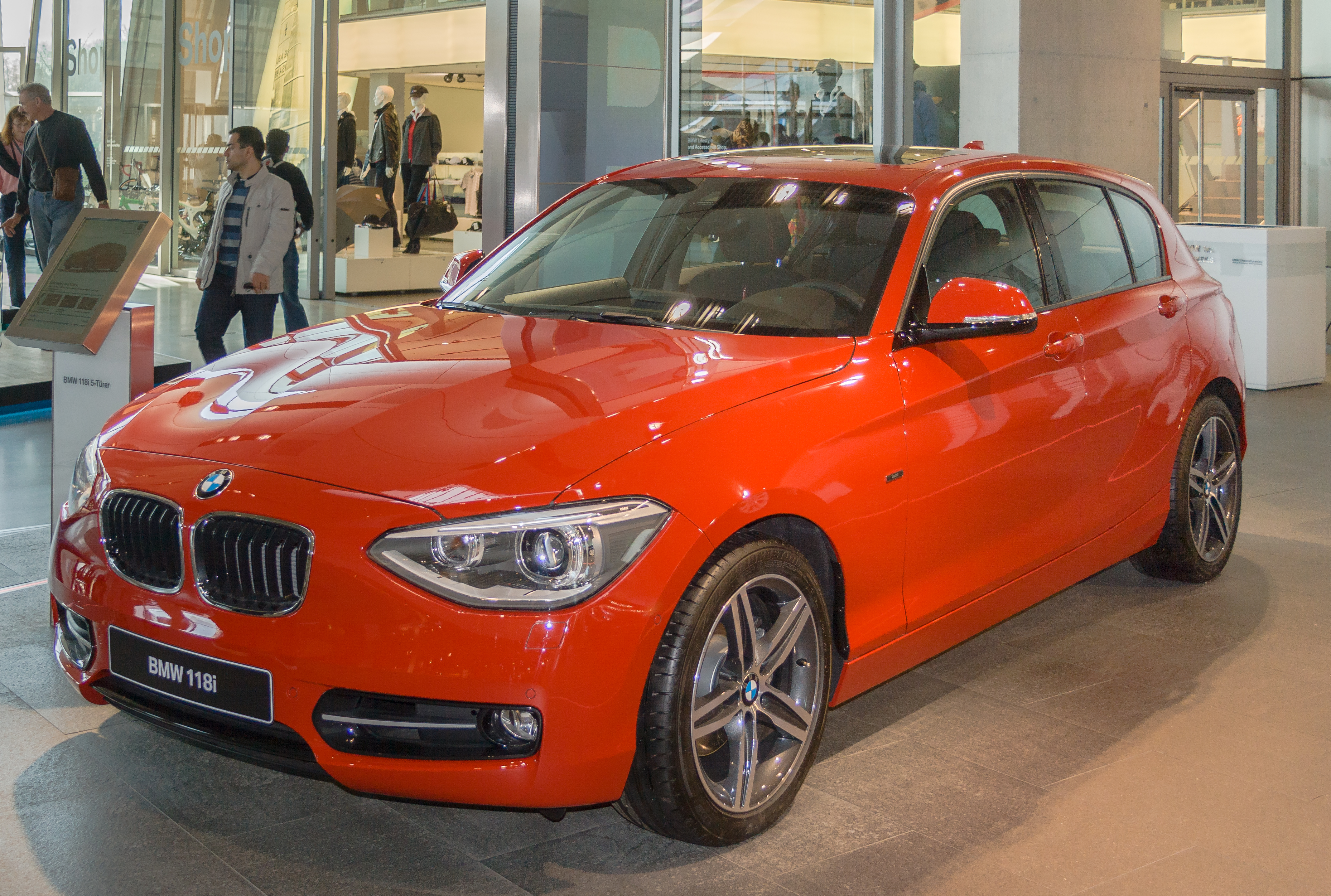 BMW 118i, BMW Welt, Munich, Germany